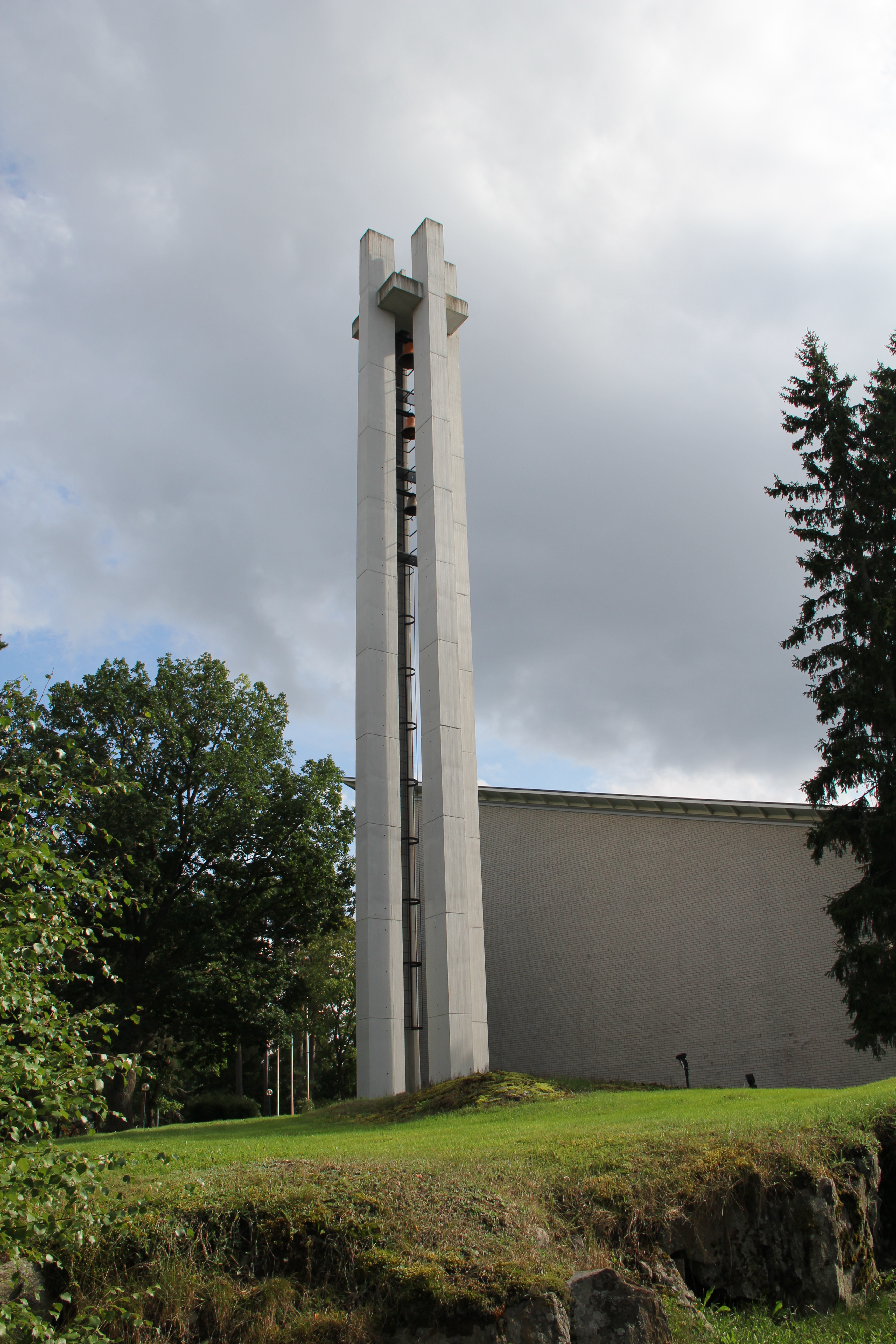 Loimaa town church in Loimaa, Finland. bell tower. Completed in 1973. Architect Reino Lukander